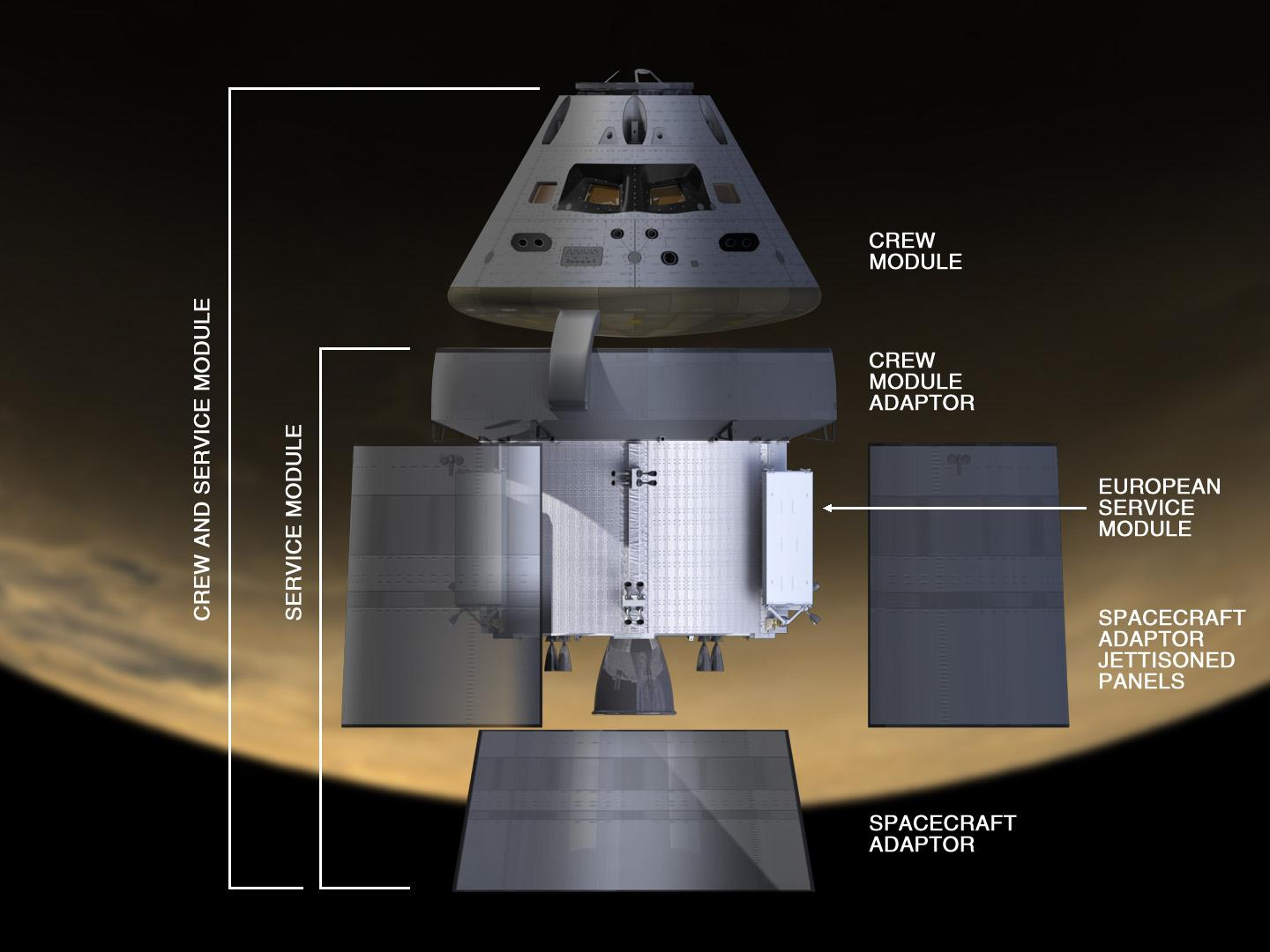 Elements of the Orion Service Module ORIGINAL IMAGE DESCRIPTION: Service Module: This image shows the elements of Orion’s crew service module. The service module components include the crew module adaptor, the ESA-provided module, the spacecraft adaptor and three spacecraft adaptor jettisoned panels.